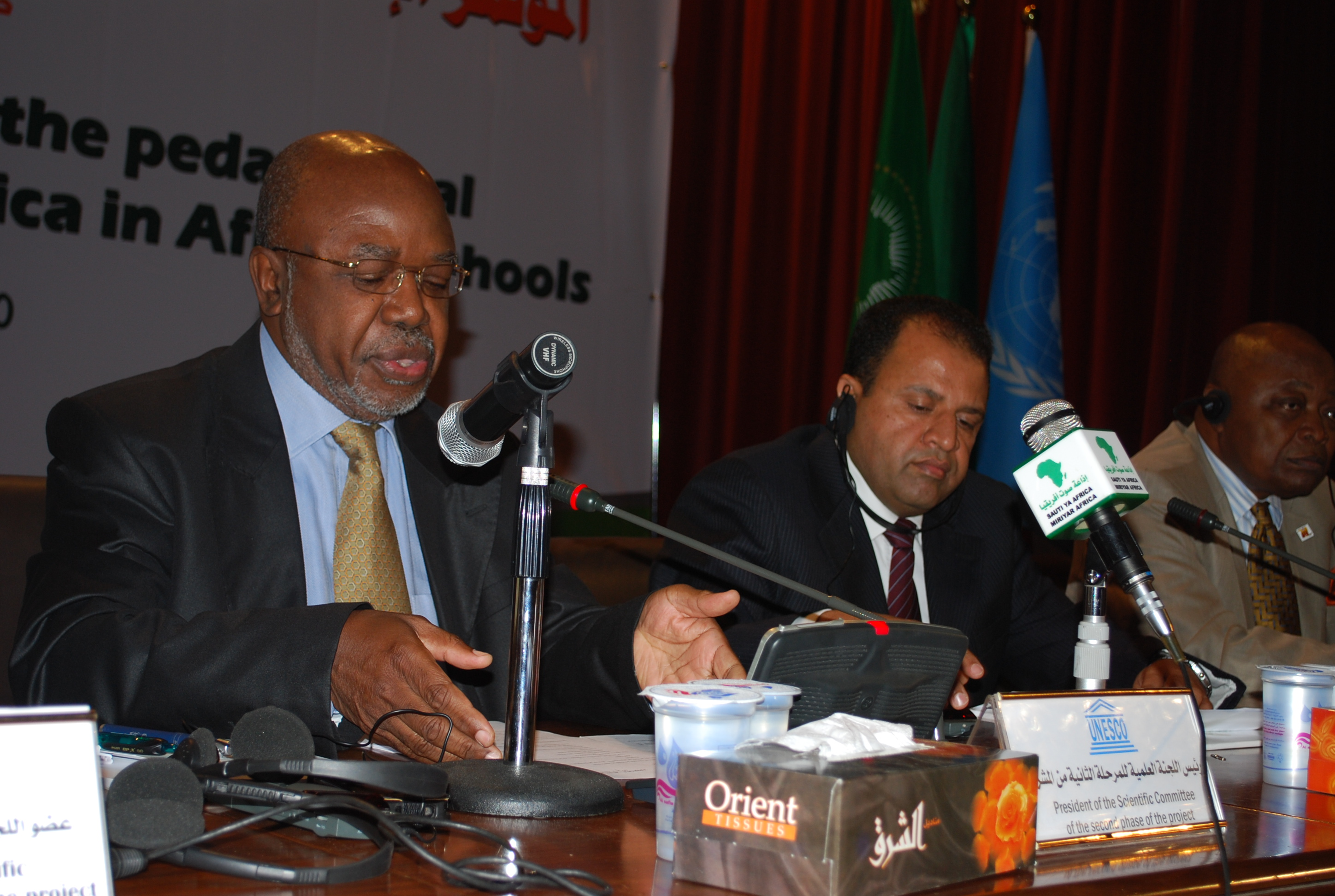 June 2010 Scientific Committee Meeting